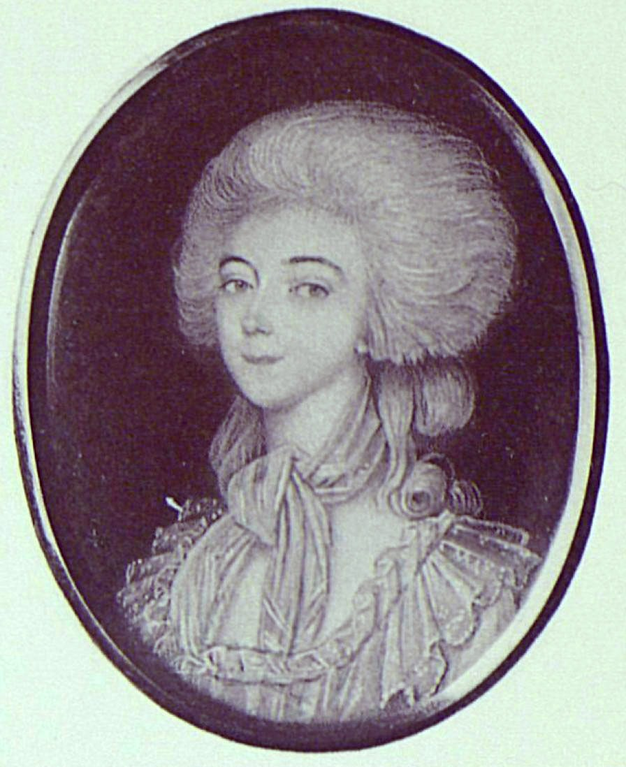 Portrait of Sofia Stepanovna Ushakov (1746-1803)